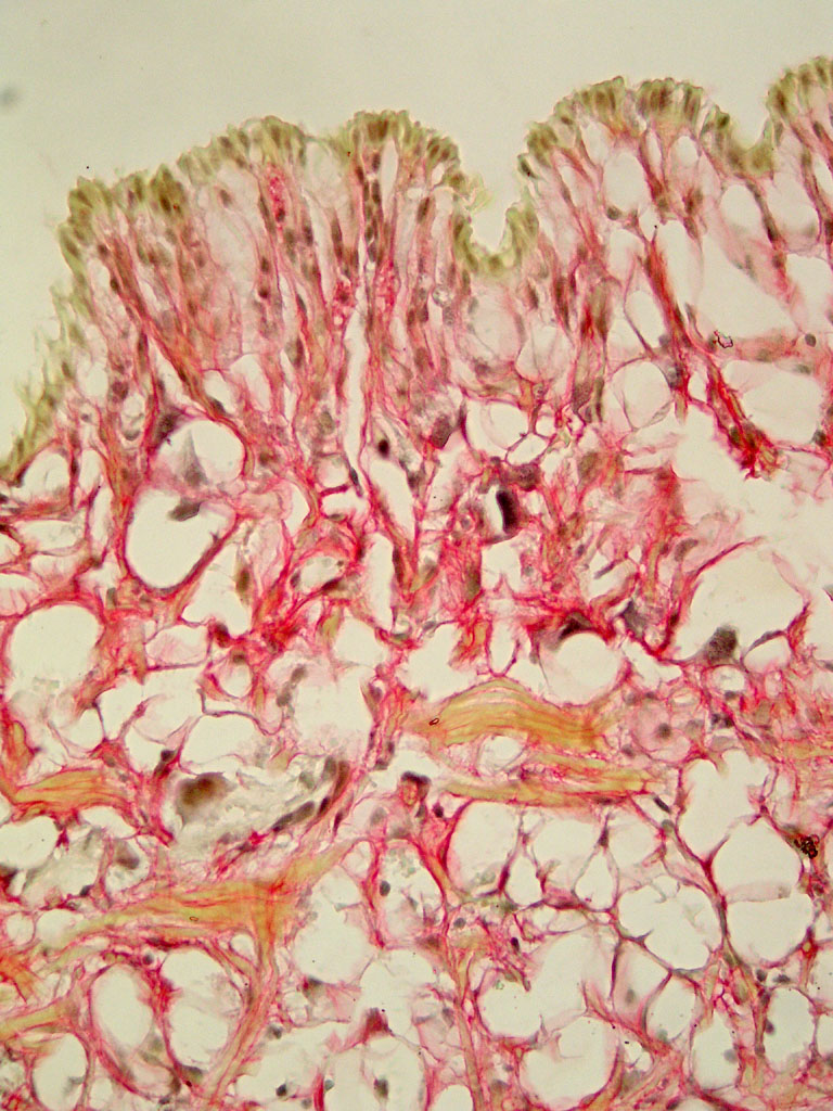 Deroceras laeve - single-layered columnar epithelium, mucus secreting and mucus-storing cells, smooth muscle cells (yellow), dense connective tissue (red), 400×, direct red 80 + Weigert's Iron Hematoxylin + picric acid.